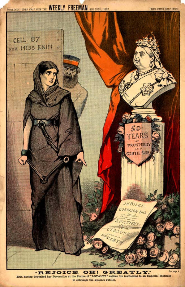 Lord Salisbury, UK Prime Minister, shows his prisoner a bust of Queen Victoria, whose 50th Jubilee is marked by coercion, eviction, closure and poverty.